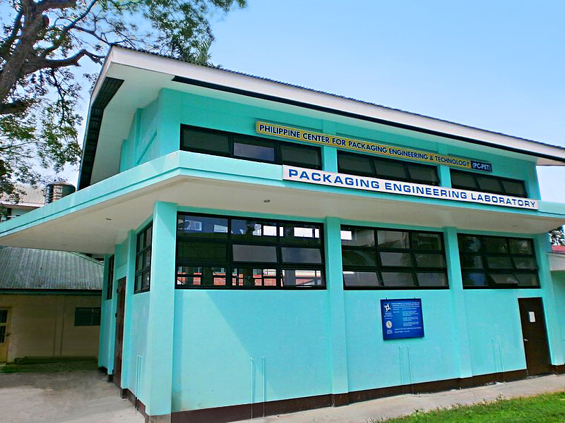 Central Philippine University - Philippine Center for Packaging Engineering & Technology (CPU-PCPET)